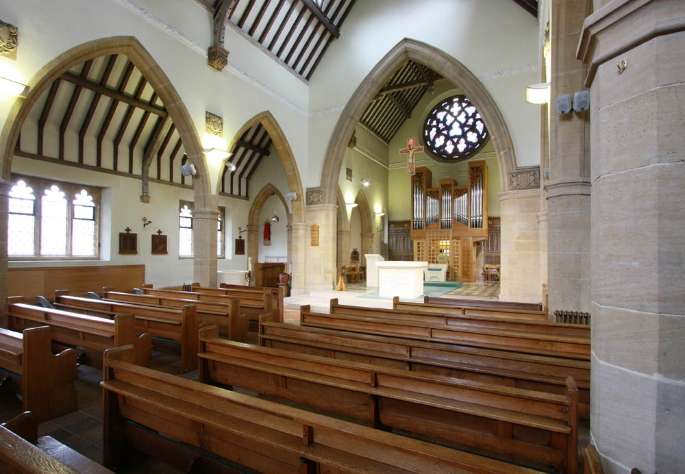 Our Lady of Grace & St Teresa of Avila, Chingford - East end